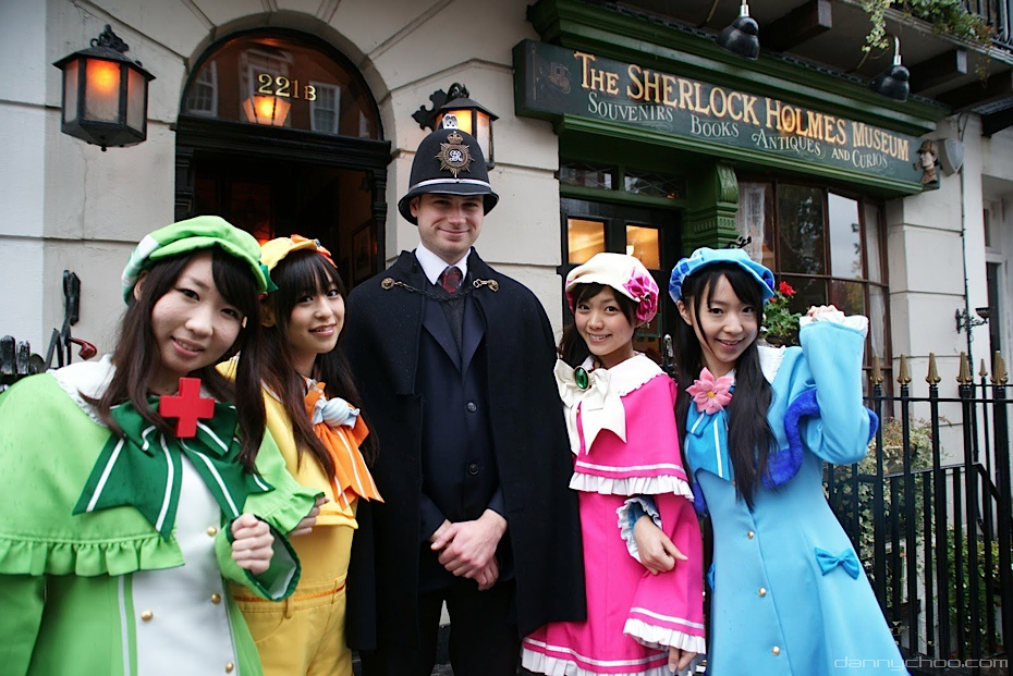 Anime seiyuu group Milky Holmes were in London recently and came to join me in the studio for Culture Japan as soon as they got back to Japan. They all say hello to you and hope you enjoy these photos that they took when they were over there. They said they didn't like the food that much though and that everything seemed to taste sour ^^; And for those who need their mind jogging:- Pink is Suzuko Mimori [三森 すずこ] Yellow is Sora Tokui [徳井青空] Blue is Izumi Kitta [橘田 いずみ] Green is Mikoi Sasaki [佐々木未来] Who is your fave? You can see the girls in action on this weekends Culture Japan this Saturday on Tokyo MX TV from 22:30 and will also be broadcast across Asia on the Animax Asia Network. You can follow the conversation when the show is being broadcast by refreshing the #tokyomx Twitter tag. Folks who want to know more about Culture Japan can get along to the Culture Japan feature page. View more at